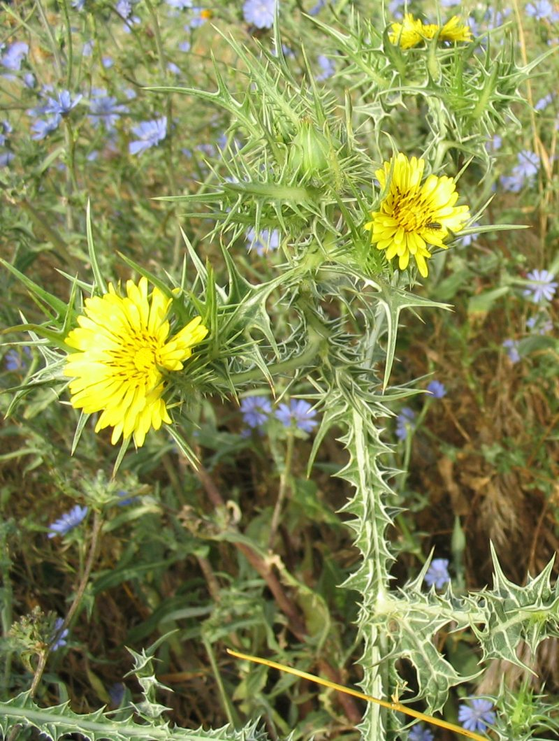 Spotted Golden Thistle (Scolymus maculatus) near the Yagur junction (near Kibbutz Yagur, on the boundary between Mount Carmel and Zebulun valley), Israel.